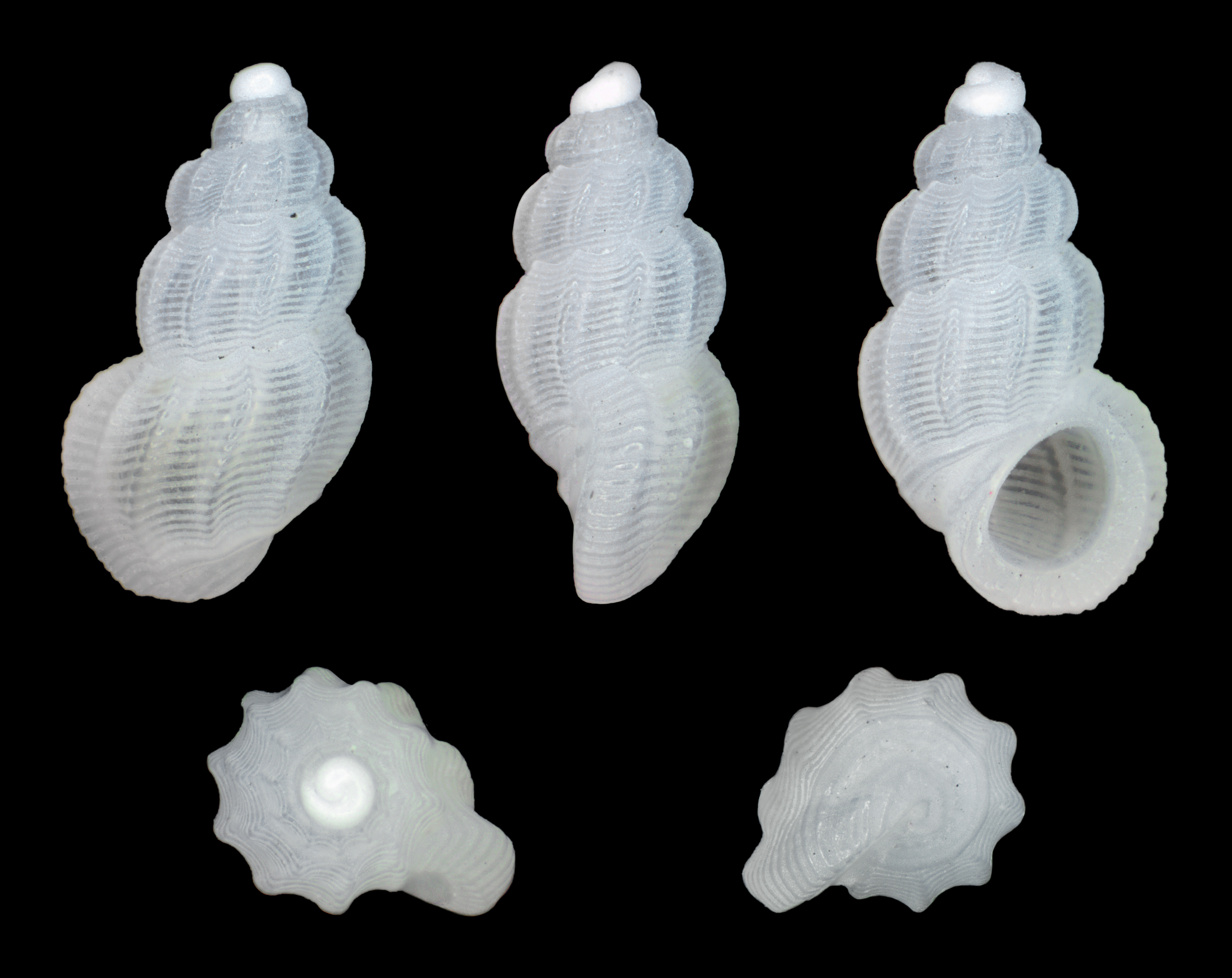 Manzonia wilmae Moolenbeek & Faber, 1987, white form; Length 0.23 cm; Originating from the Playa del Duque, Tenerife, Canary Islands, Spain; Shell of own collection, therefore not geocoded. Dorsal, lateral (right side), ventral, back, and front view.